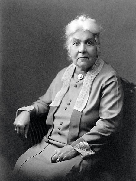 Anahit Diana Abgarian (Aghabekian), 1854-1937. The first female ambassador of the World